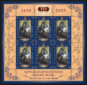 Stamp of Belarus